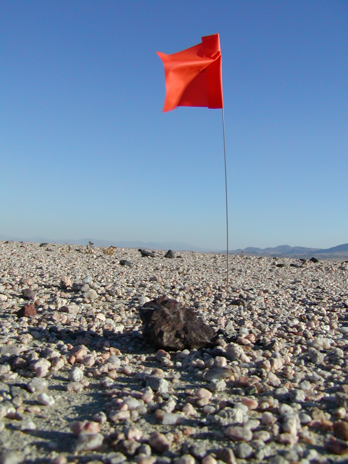 self-taken, none, H5 meteorite in situ in mojave desert